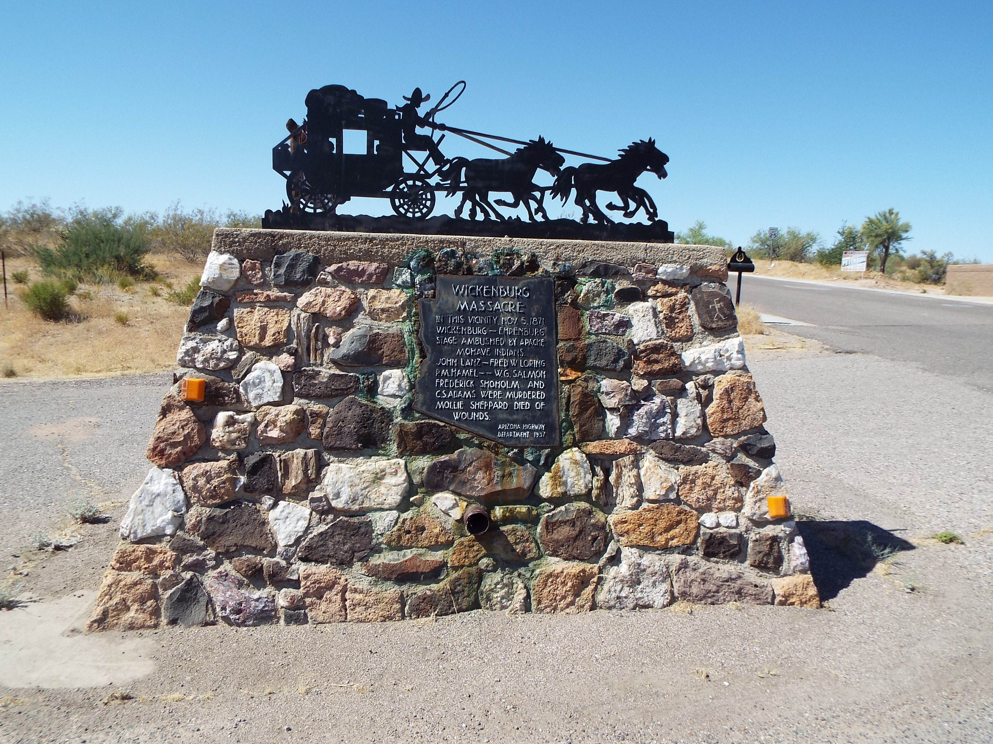 Vicinity marker where the Wickenburg Massacre took place. The Wickenburg Massacre was the mass murder of six stagecoach passengers en route from Wickenburg, Arizona Territory, westbound for San Bernardino, California, on the La Paz road on November 5, 1871.